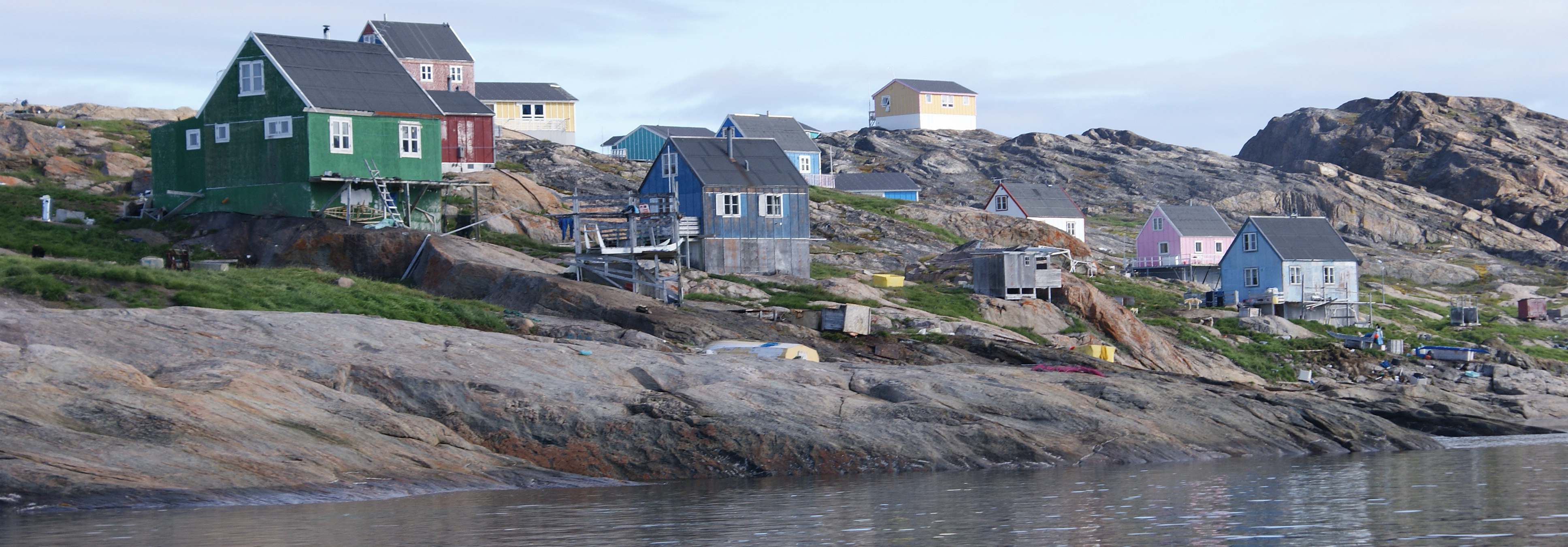 Tasiusaq, Upernavik Archipelago, Greenland. Photographed from a hunting boat.